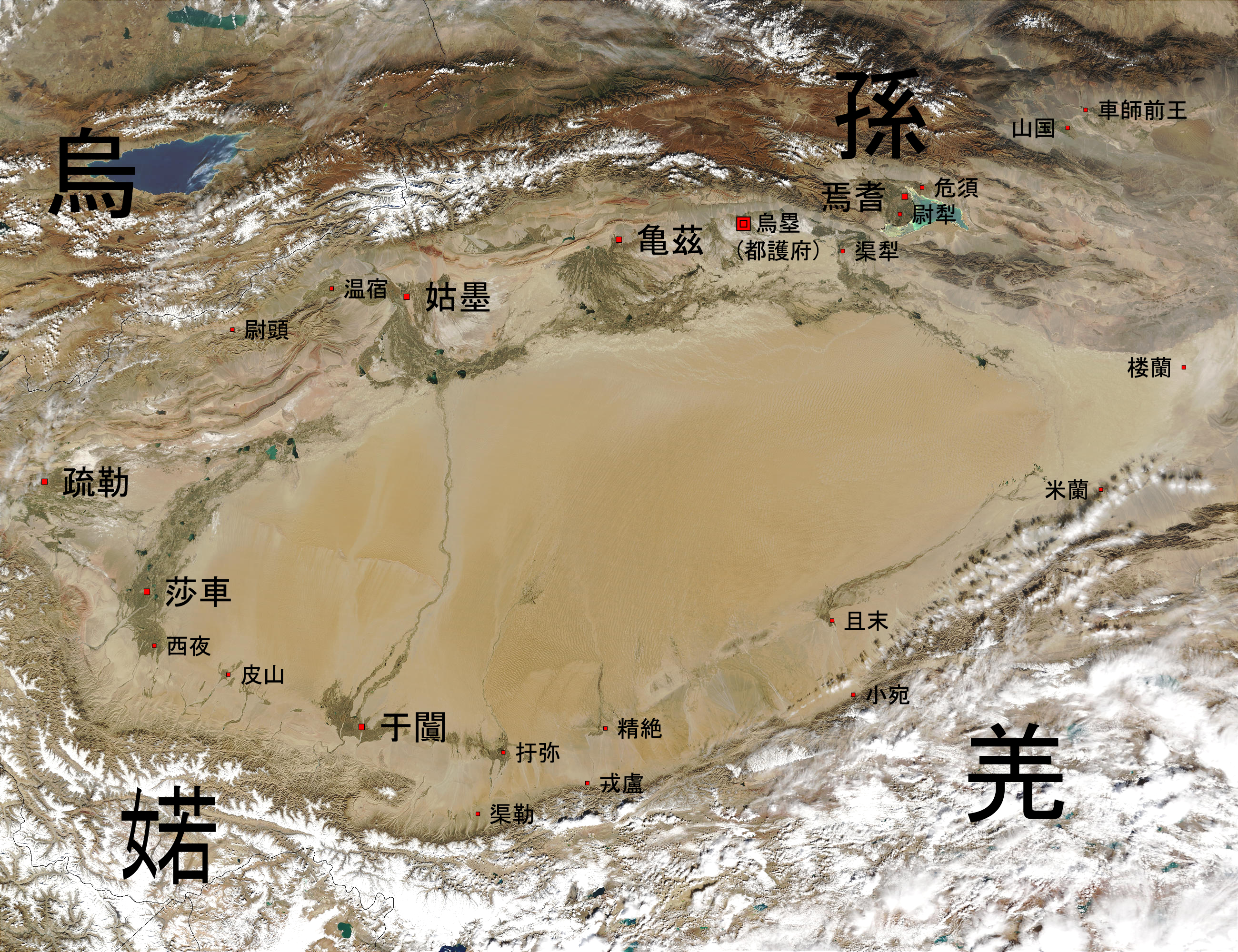 Xiyu City-States of Tarim basin in The first century at B.C.